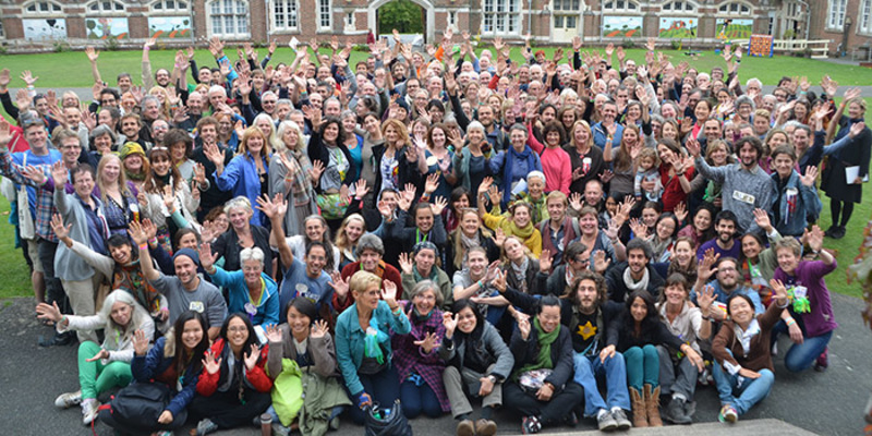 Group photo from Seale Hayne conference, September 2015. Mike Grenville.